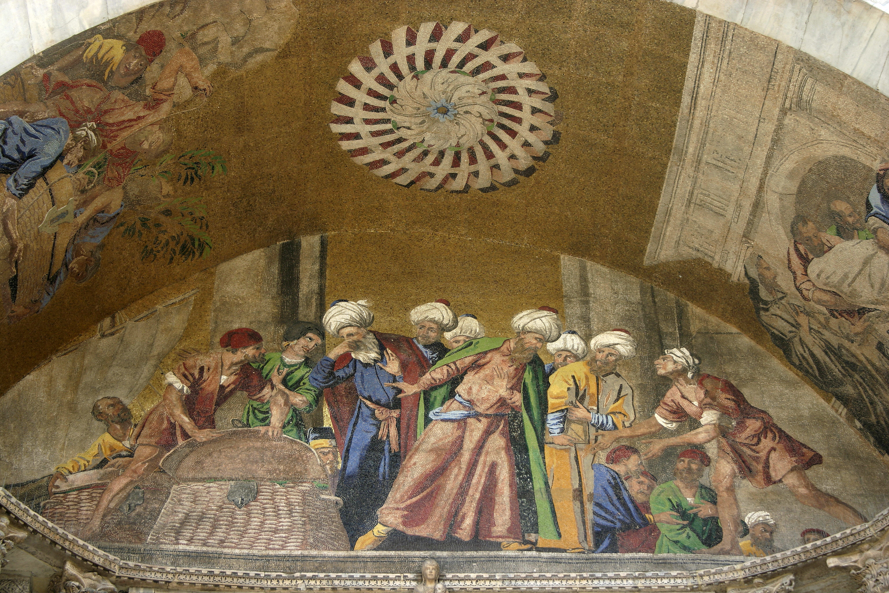 Venice - St. Mark's Basilica, facade – Fifth lunette counting from left: Pietro Vecchia, Saint Mark's body is stolen from Alexandria, ca. 1660.